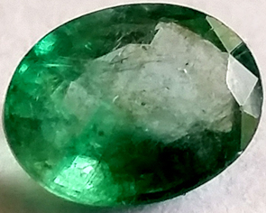 Emerald, 1.07ct, Colombia